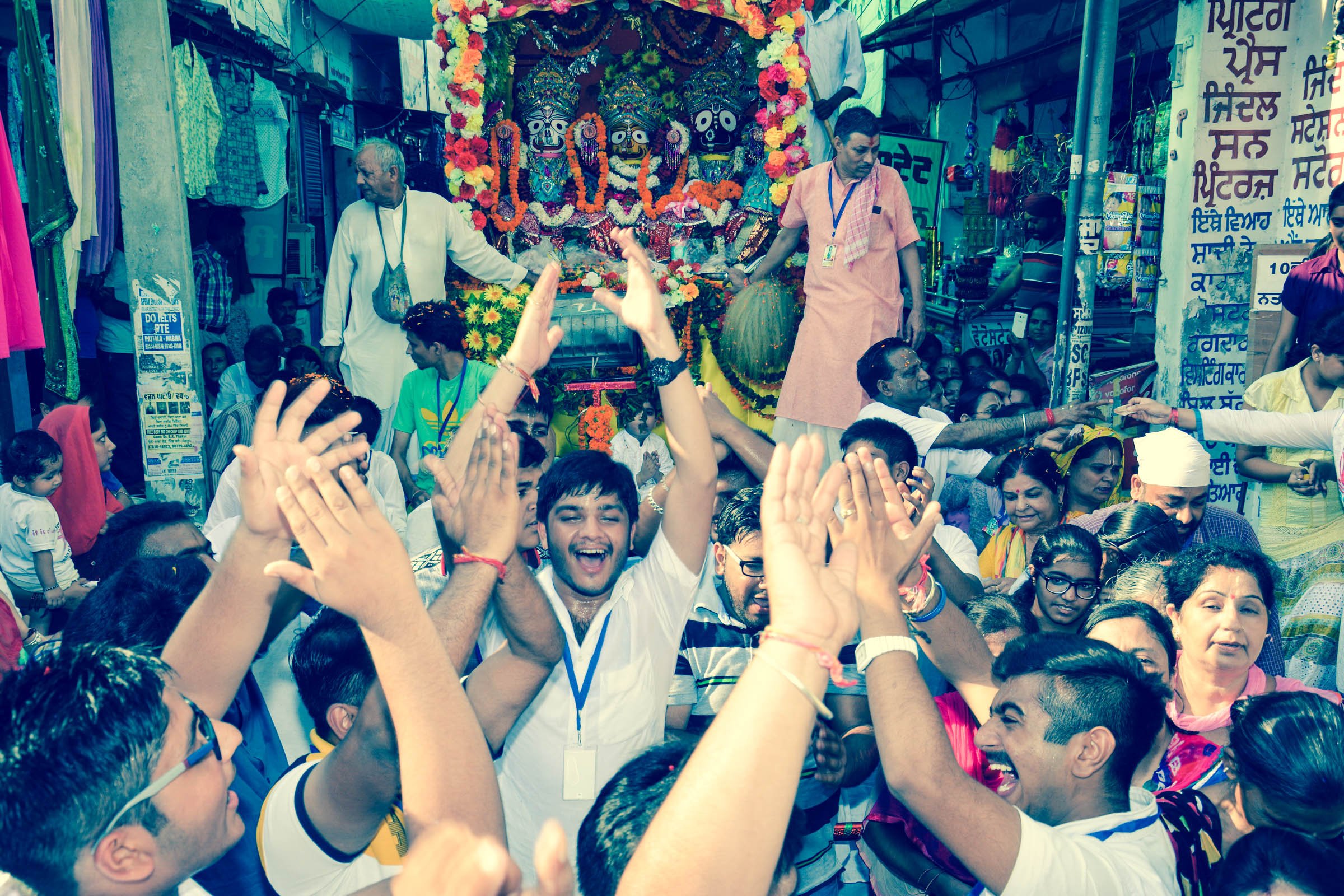 Hari Bol Hari Bol Dance